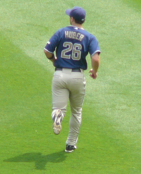 Please attribute this photo by name if used in places other than Wikipedia. 06:21, 29 May 2008 . . Chrisjnelson . . 462×570 (271 KB)